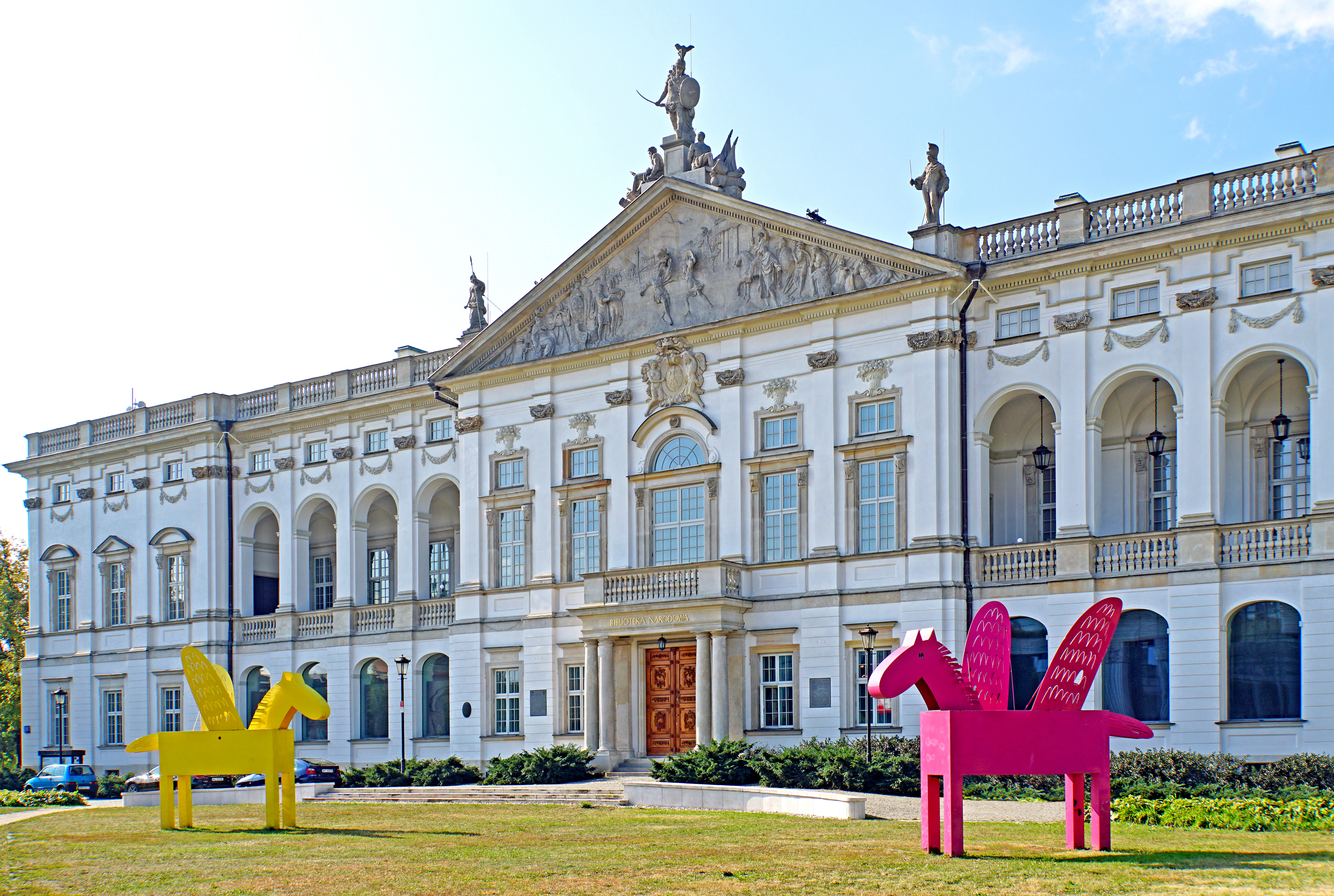 PLEASE, NO invitations or self promotions, THEY WILL BE DELETED. My photos are FREE to use, just give me credit and it would be nice if you let me know, thanks. Bus Shot... The Polish National Library dates back to the beginning of the eighteenth century. The tragic fate of its library - from the deportation of the entire library to St. Petersburg, after the defeat of the Kosciuszko Insurrection and loss of independence, until the destruction of the most valuable parts of the recovered items in October 1944 - have become one of the symbols of the losses of Polish culture, forever associated with the idea of the National Library. The Kościuszko Uprising was an uprising against Imperial Russia and the Kingdom of Prussia in the Commonwealth of Poland and the Prussian partition in 1794. It was a failed attempt to liberate the Polish-Lithuanian Commonwealth from Russian influence.